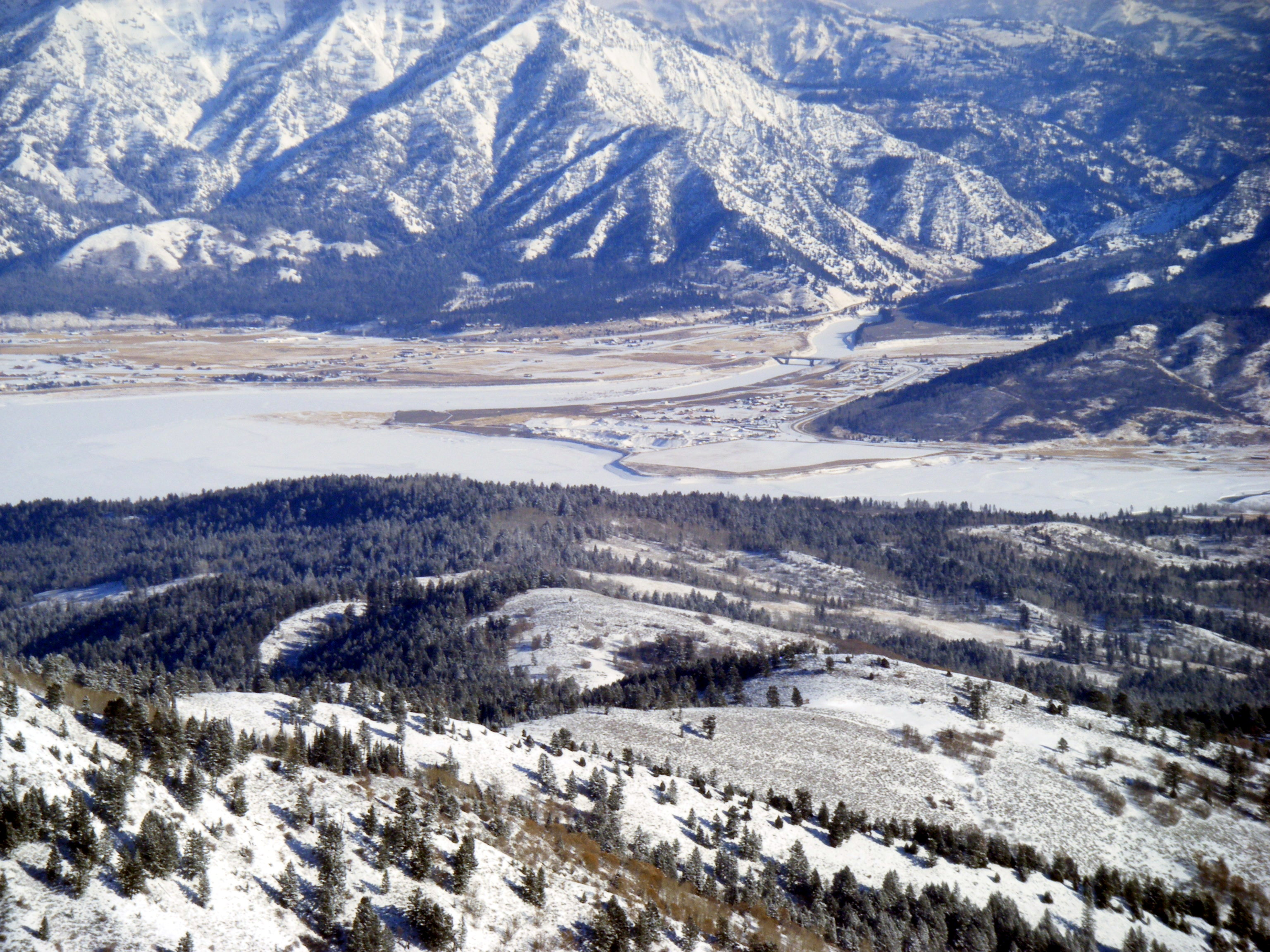 View of Alpine (Alpine Junction) including portions of Snake River Canyon, Greys River Canyon, Salt River, and Palisades Reservoir. View from atop nearby Black Mountain (Idaho).